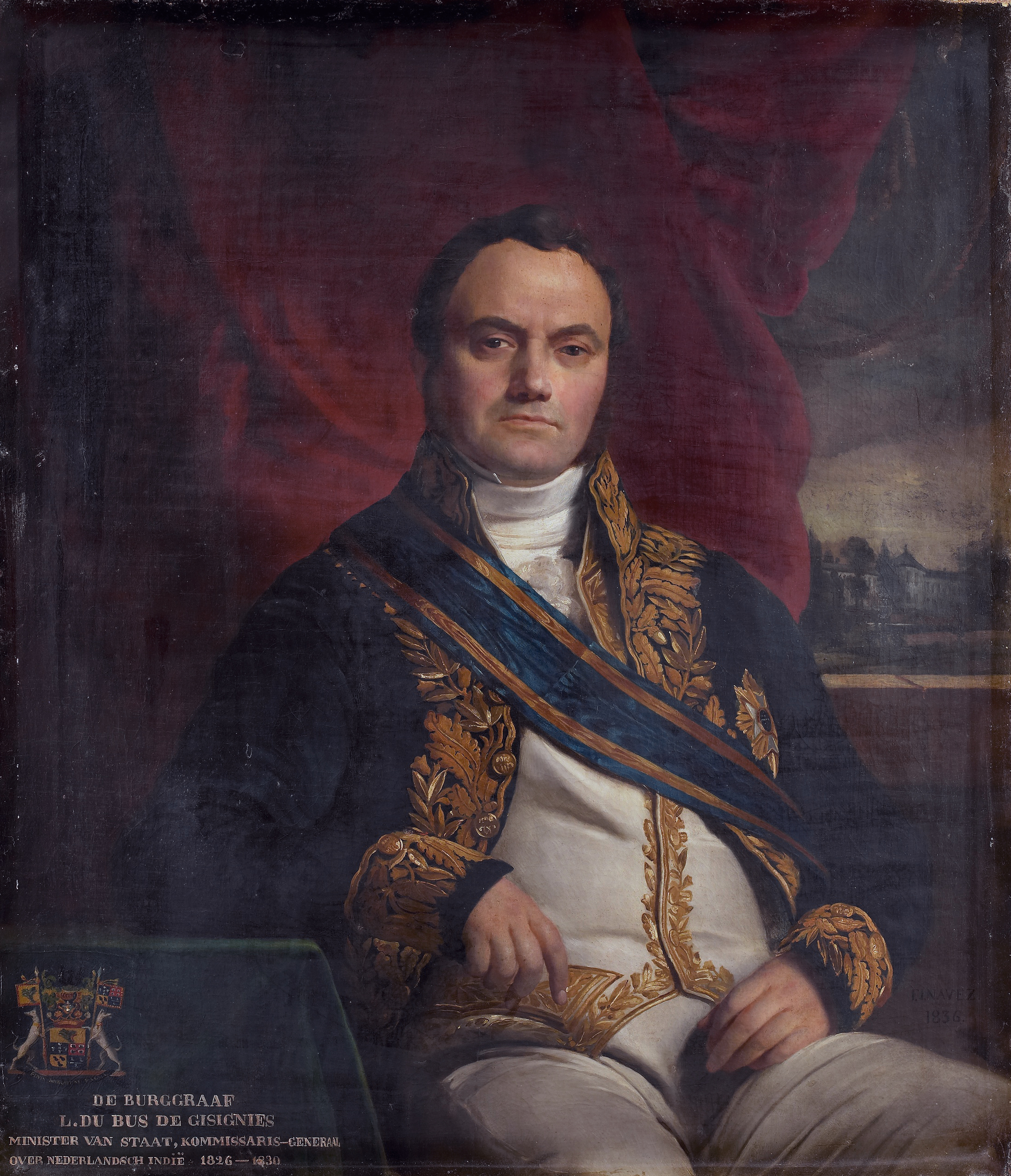 Portrait of Léonard Pierre Joseph Burgrave du Bus de Gisignies, Governor-General of the Dutch East Indies from 1826 to 1830. Part of the Governors-general series.